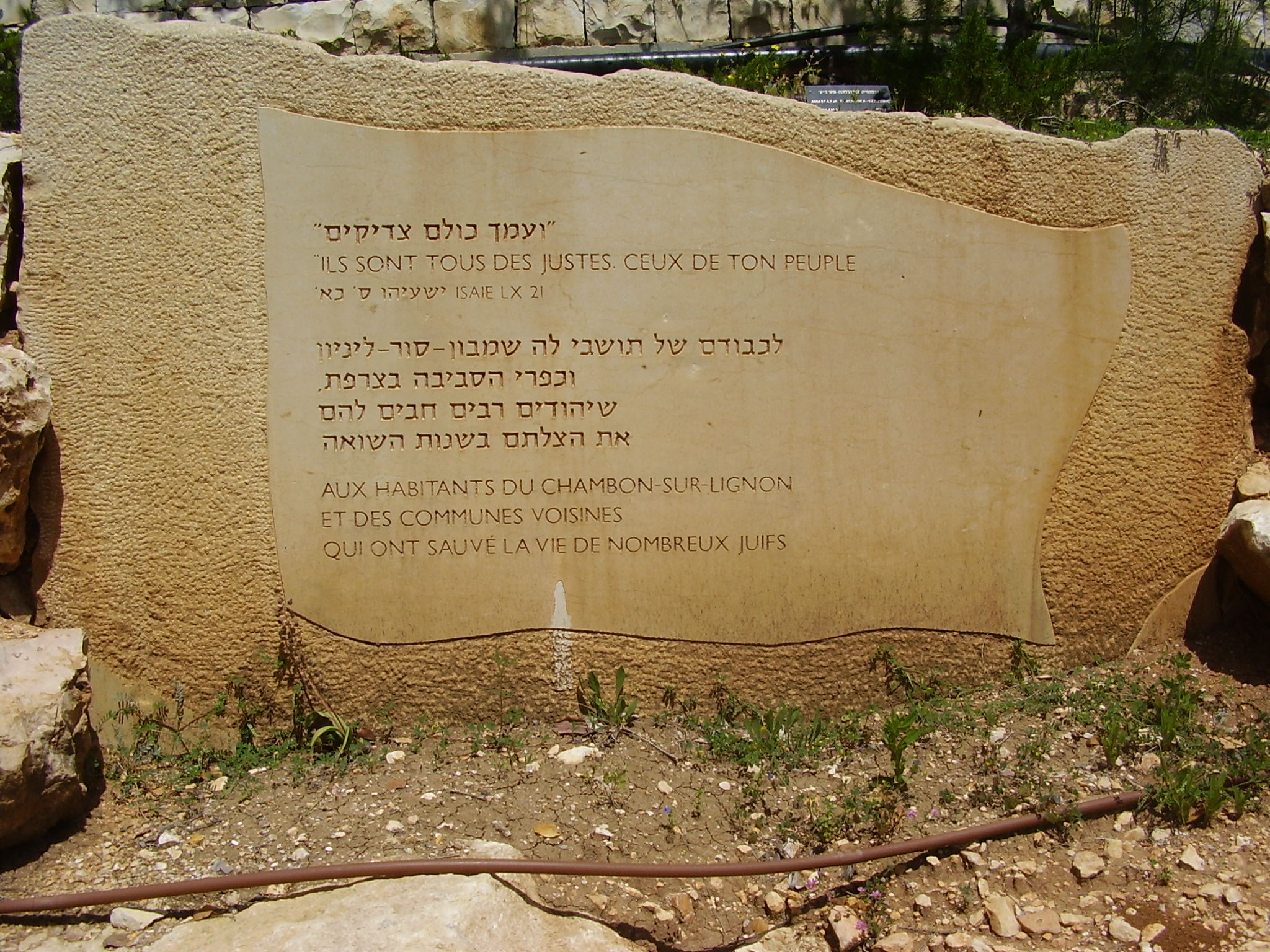 le chambon memorial in yad vashem